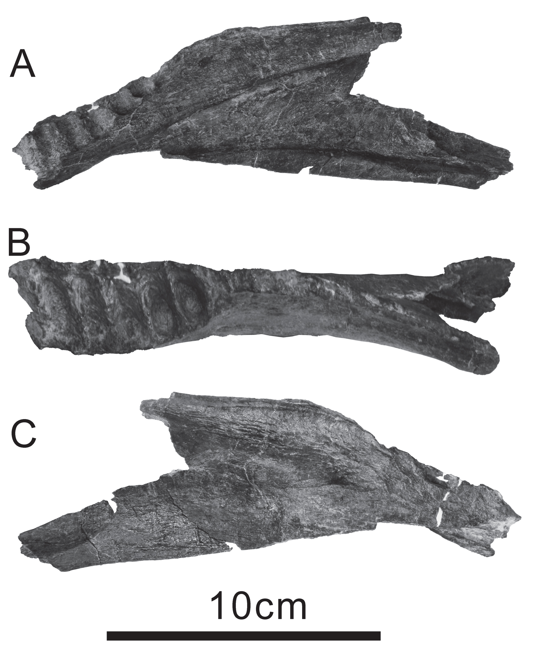 Tambatitanis amicitiae gen. et sp. nov., holotype (MNHAH D-1029280). Fragment of right dentary. A, medial view, dorsal is to the top, and posterior is to the right of the page. B, dorsomedial view, lateral is to the top, and posterior is to the right of the page. C, lateral view, dorsal is to the top, and posterior is to the left of the page.